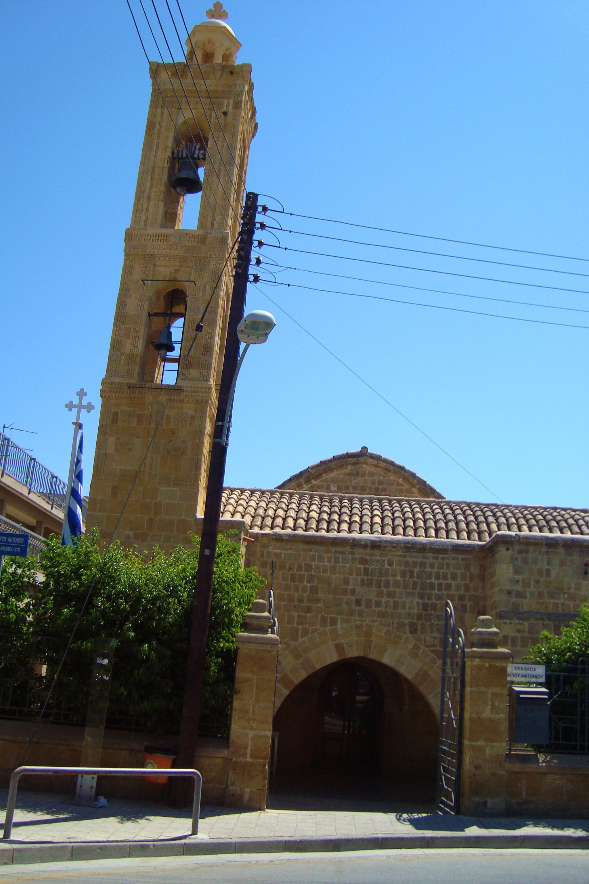 Ayios Antonios Saint Antonis old church in Nicosia Republic of Cyprus